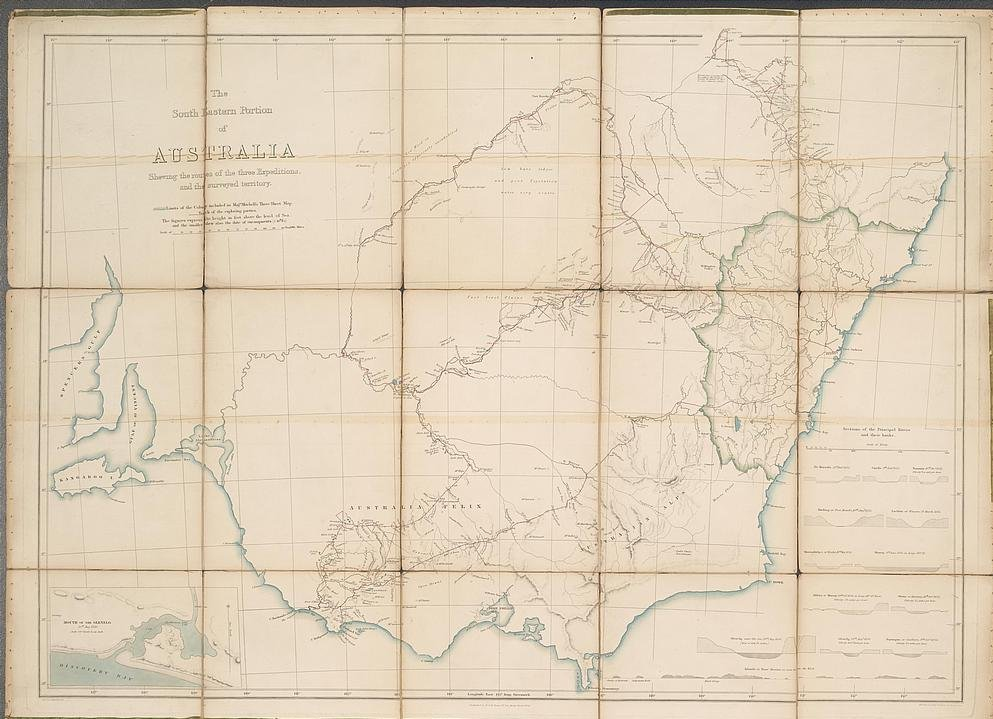 The south eastern portion of Australia showing the routes of the three expeditions and the surveyed territory. Mitchell's map of Victoria and New South Wales showing towns, major rivers and the limits of the Colony at the time. The map shows in red the routes taken by Mitchell's expedition and camps. Major Thomas L. Mitchell's expedition of 1836 was an exploratory one, the aim of which was to develop and expand the Colony of New South Wales and to seek potential grazing and farming land, as well as sites for new settlements. A landmark in Australian history, Mitchell exceeded his orders and discovered and explored a rich pastoral area which he called Australia Felix (Happy Australia) - now central and western Victoria. This map which he compiled is the first properly surveyed map of this part of southeast Australia and it remained in use for many years.